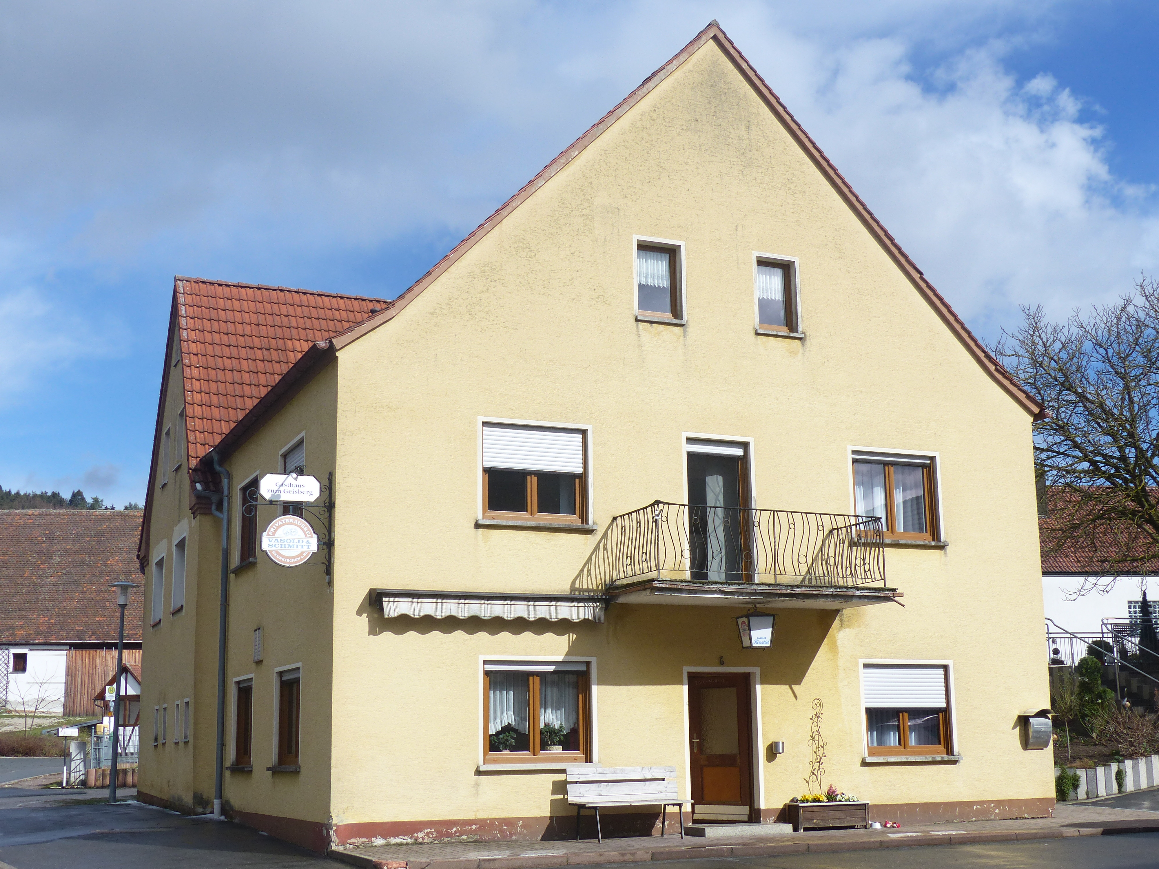 An architectural heritage monument in the village Oedhof, a part of the municipality of Eckental